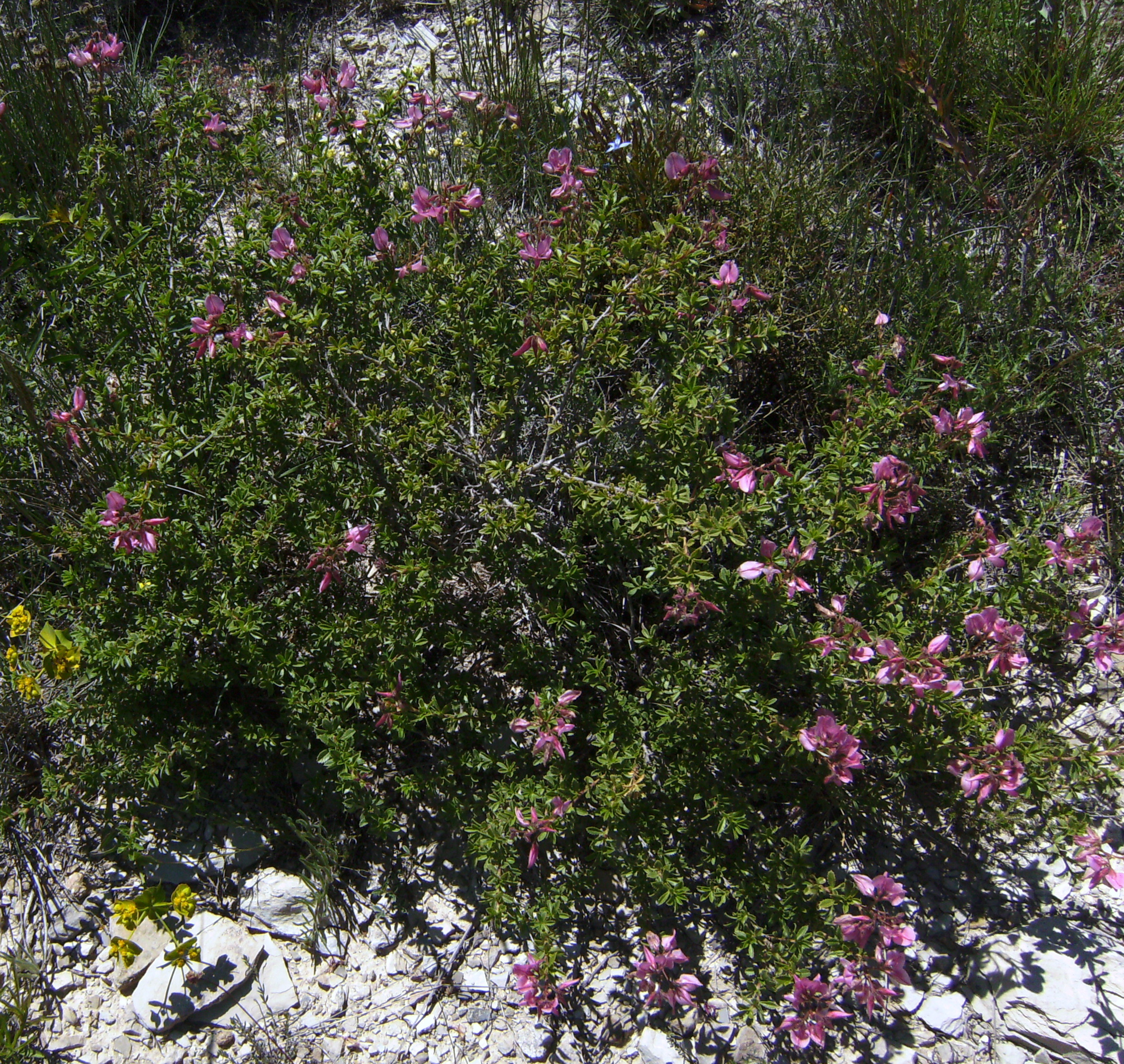 Ononis fruticosa flowering bush, Castelltallat, Catalonia